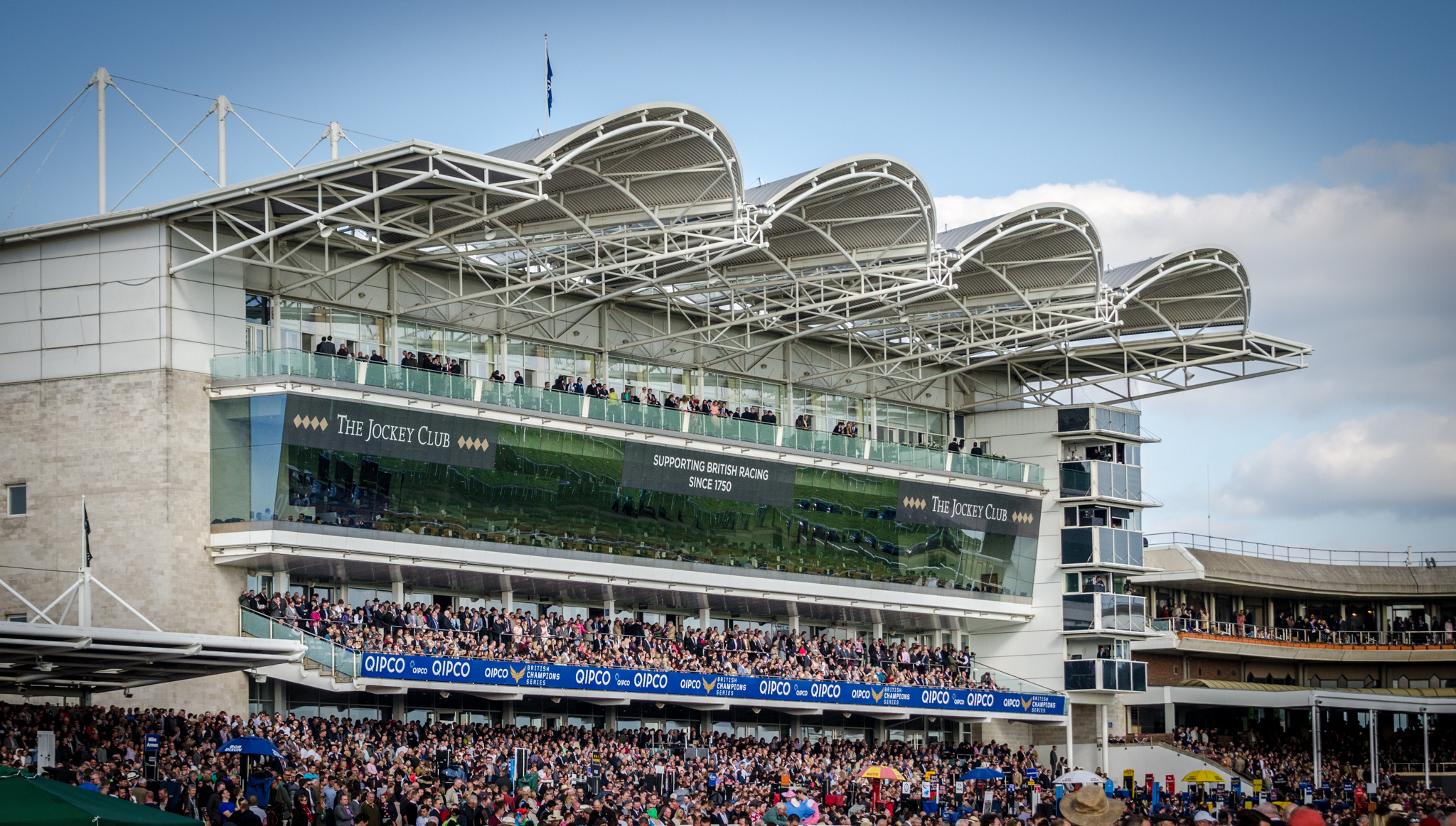 2000 Guineas 2014